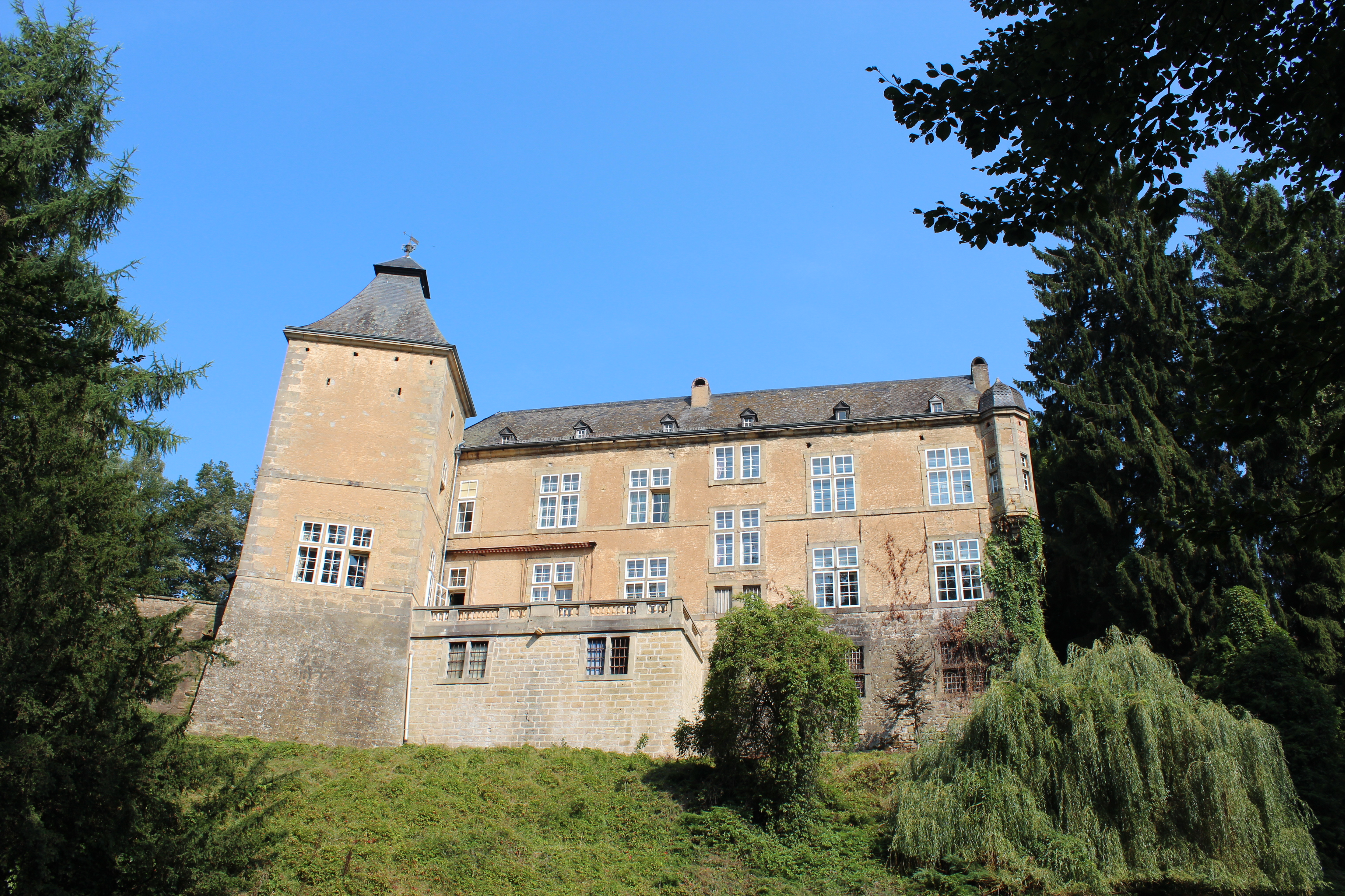 Renaissance castle in Beaufort, Luxembourg, built in the 1640ies for Governor Jean de Beck.